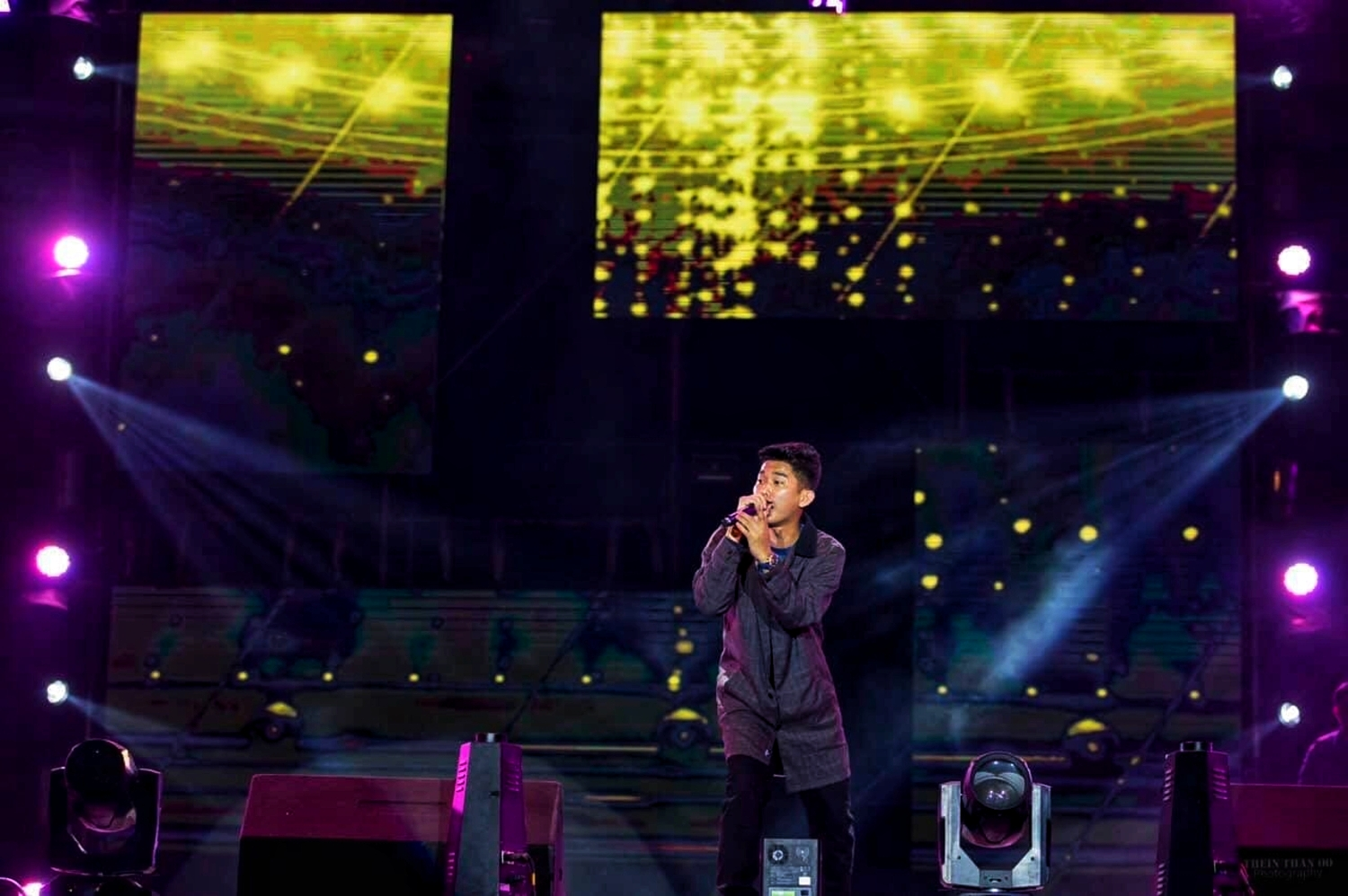 Burmese hip hop singer G Fatt